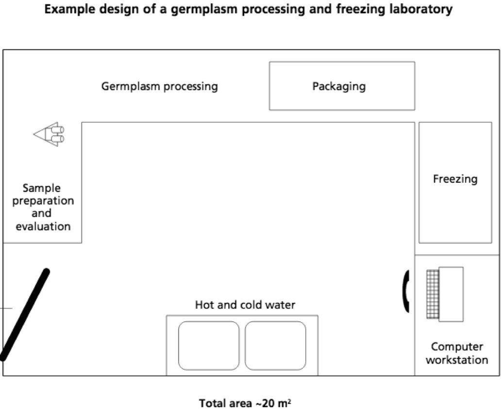 Diagram of freezing laboratory